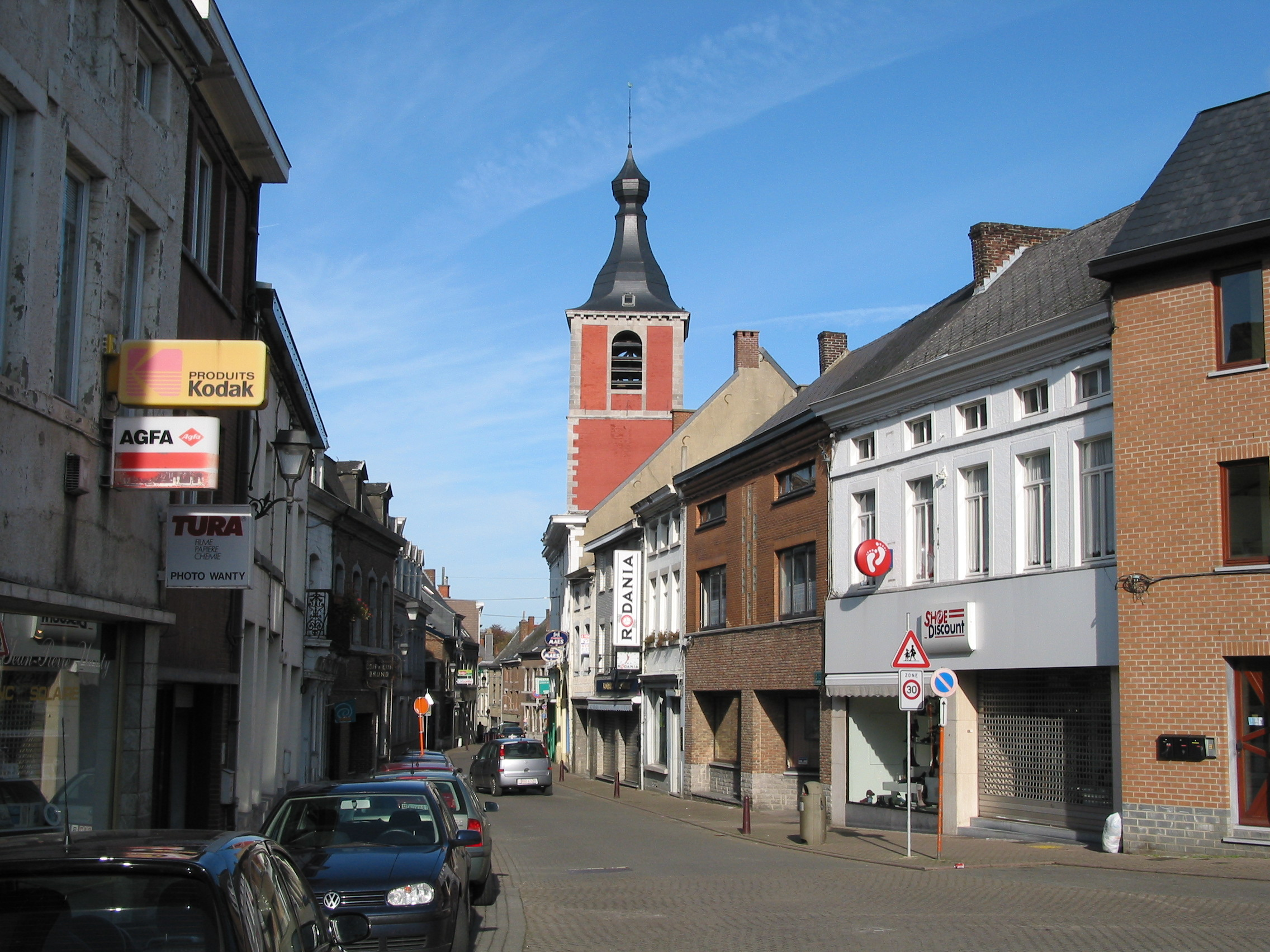 Fontaine-l'Évêque (Belgium), the Joseph Parée street and the St. Vasius church